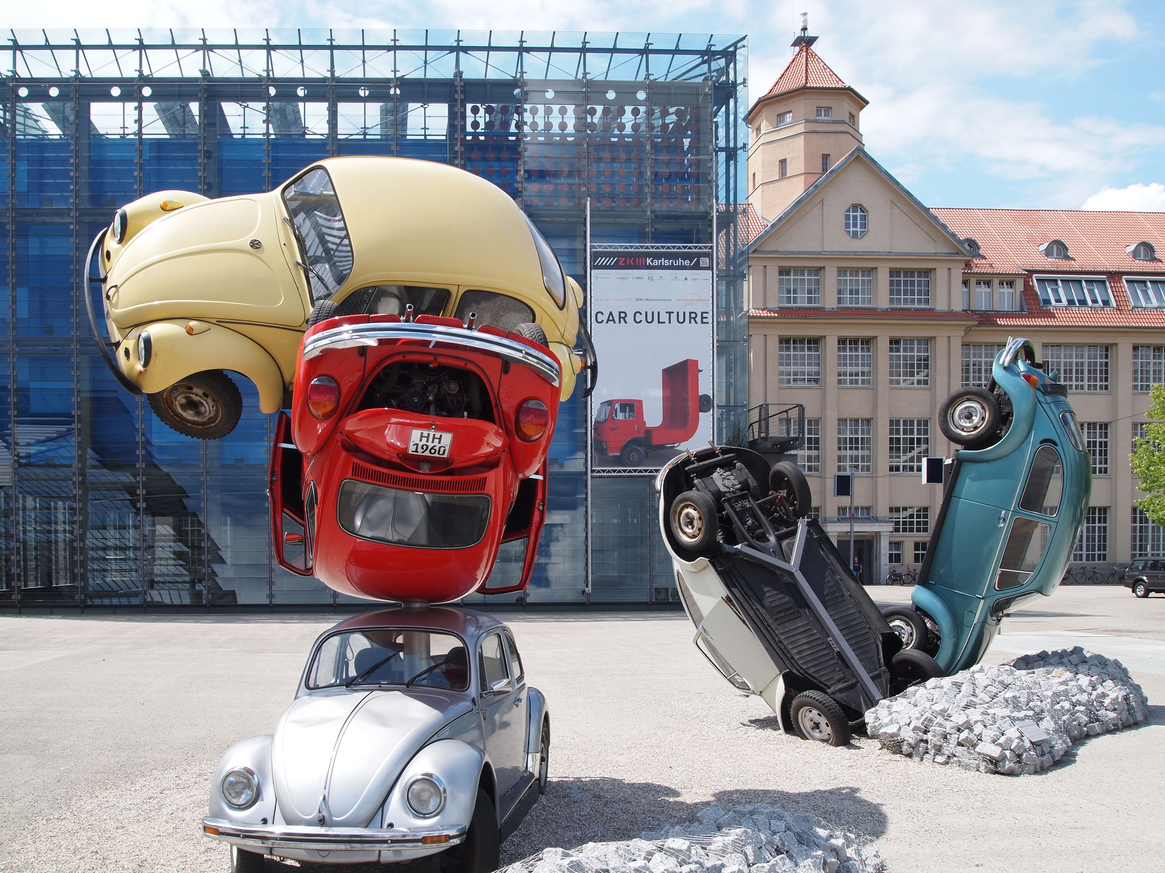 Exhibition CarCulture in Karlsruhe, public sculpture in front of ZKM museum